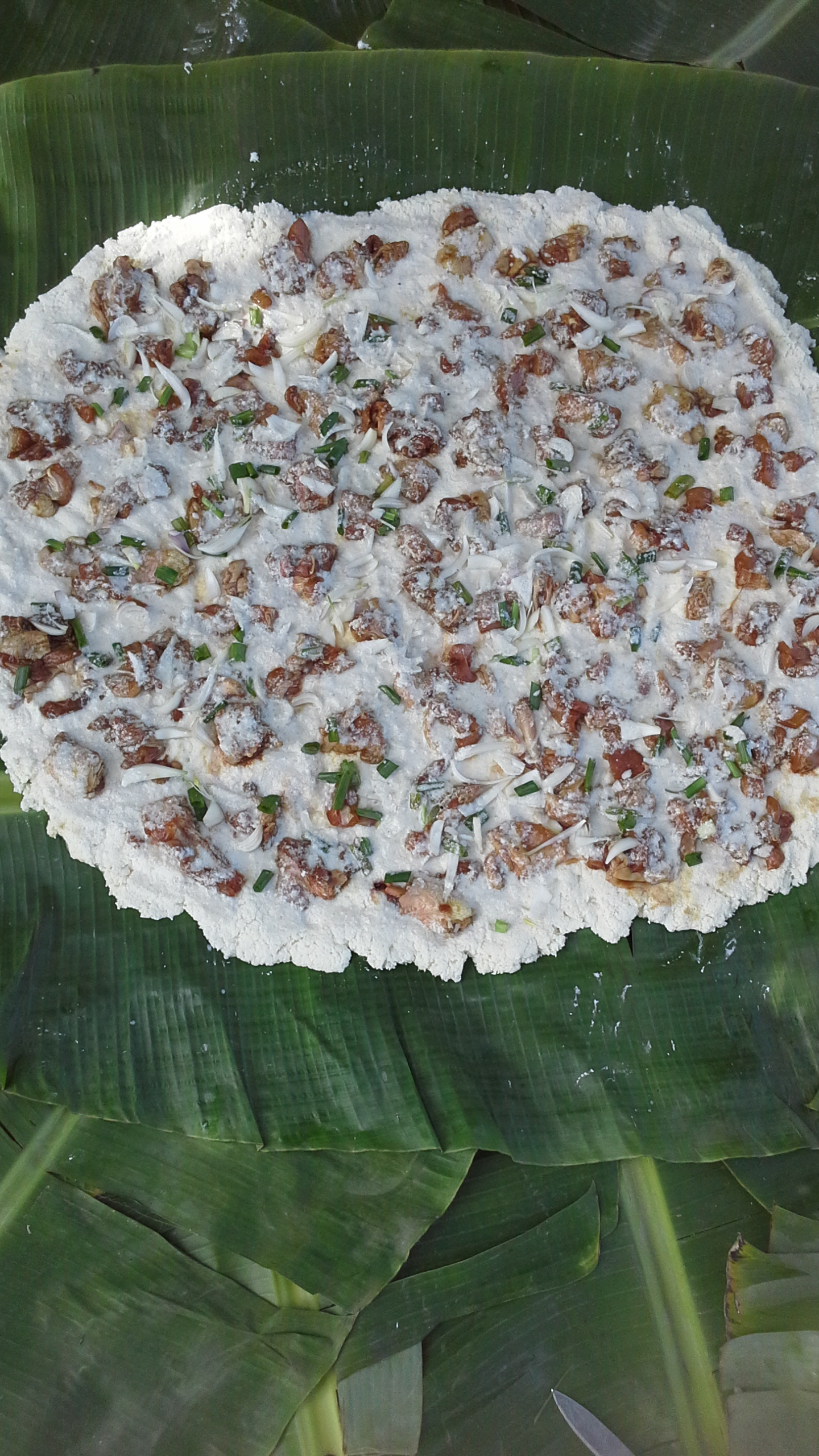 Laplap (sometimes spelled lap lap), a traditional Vanuatu root vegetable cake.